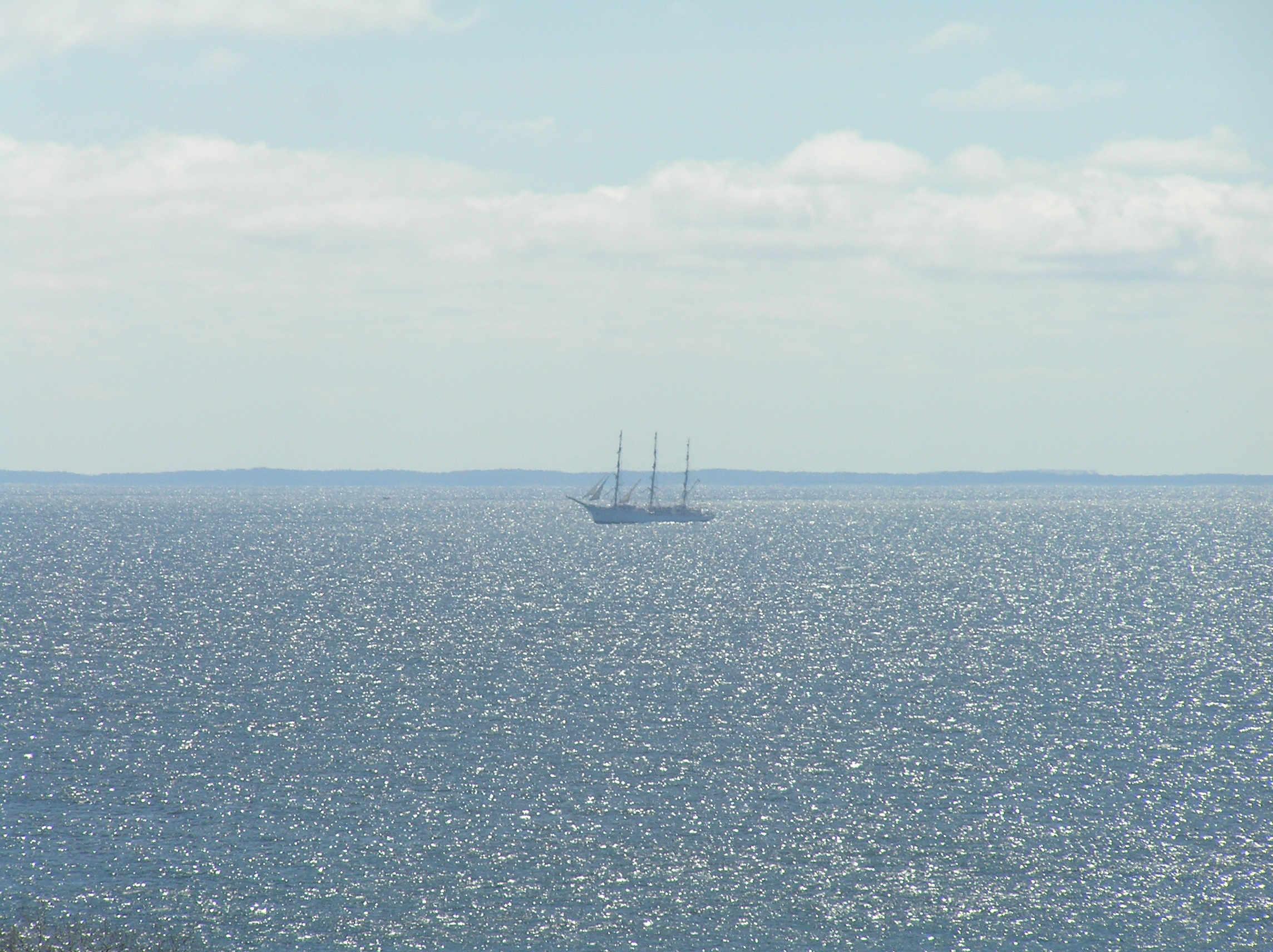 Frigate SY Dar Młodzieży. A view from the Hel lighthouse.